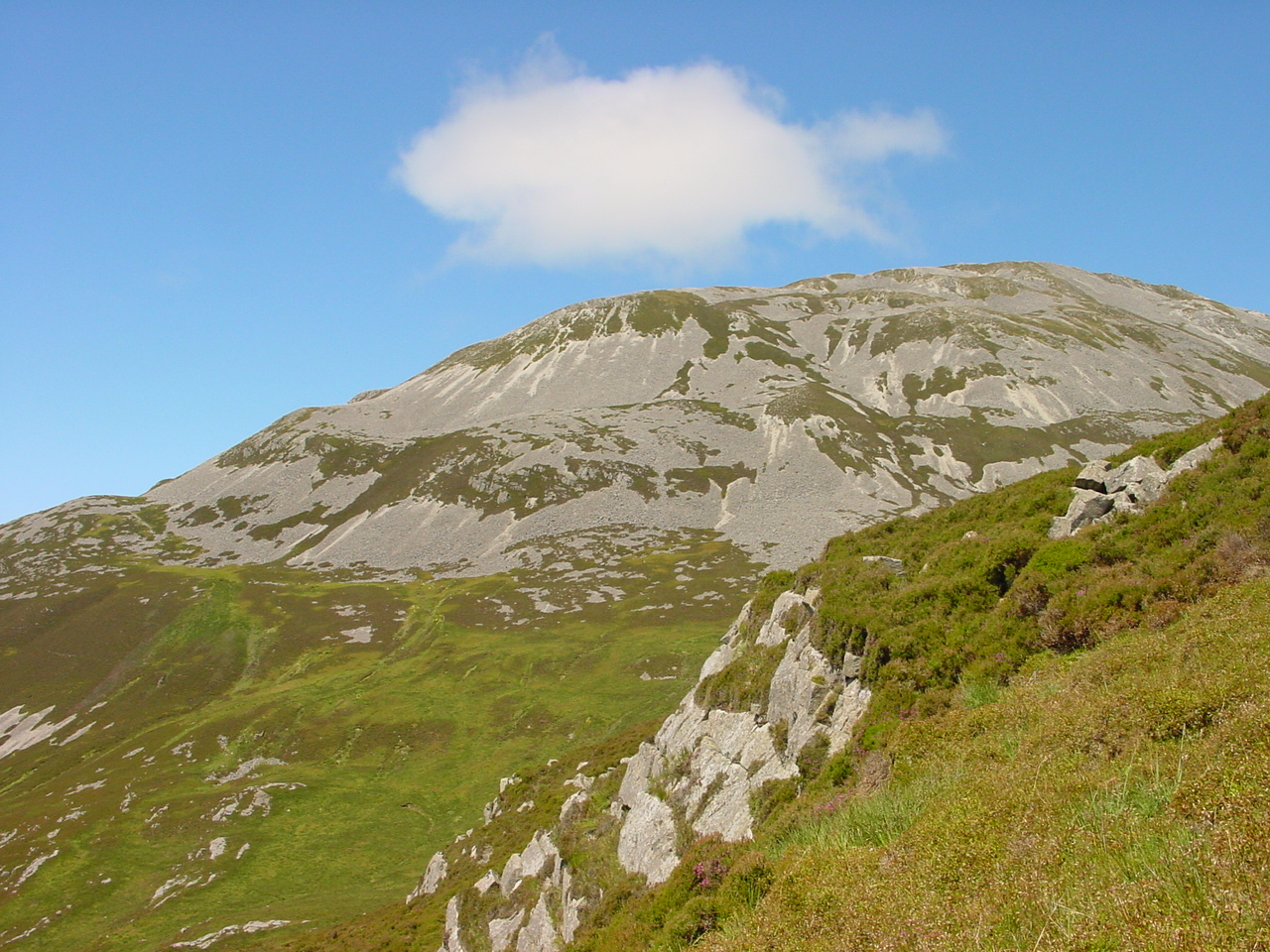 Beinn a' Chaolais (733 m), one of the 3 "paps of Jura", Island of Jura, Southern Hebrides, Scotland